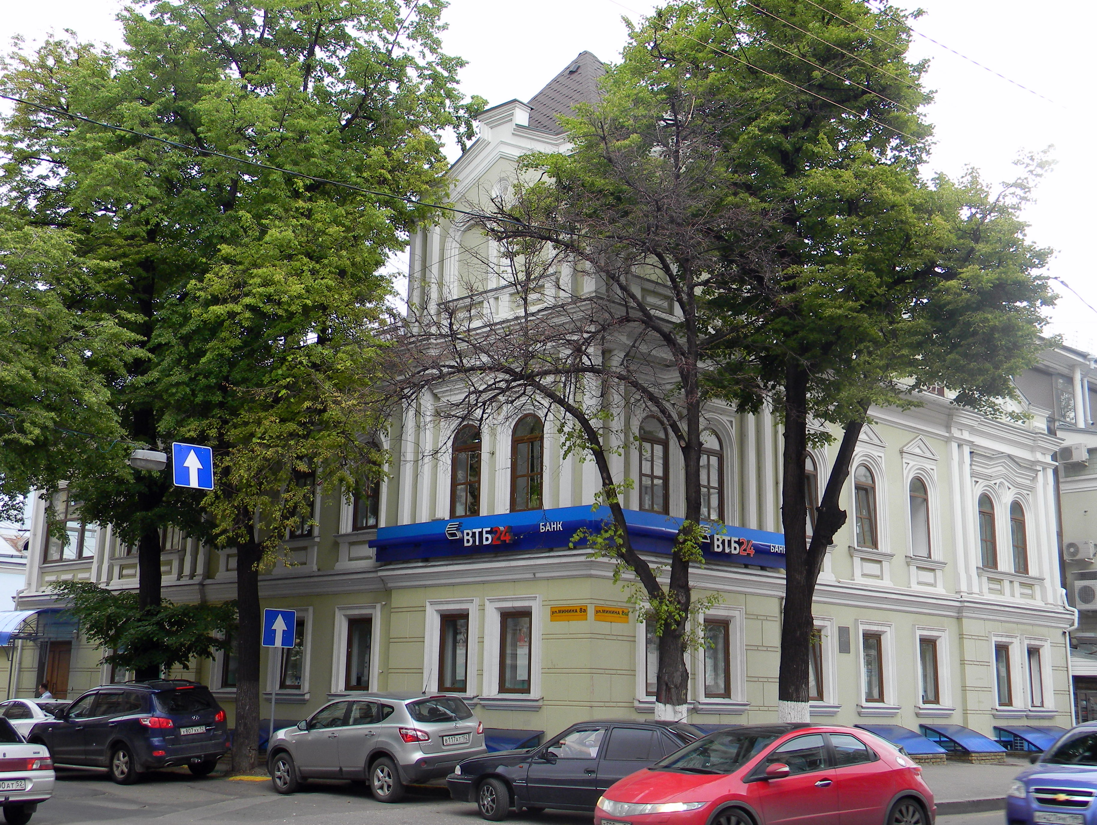 Sirotkin's house with the Old Believers' church (built in 1865, re-built in 1913—1914) at Minina street in Nizhny Novgorod